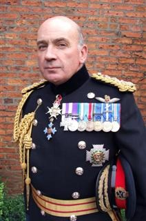 General Sir Francis Richard Dannatt, KCB, CBE, MC. Chief of the General Staff of the United Kingdom.